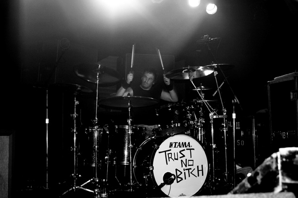 Abe Cunningham performing with Deftones in 2007.